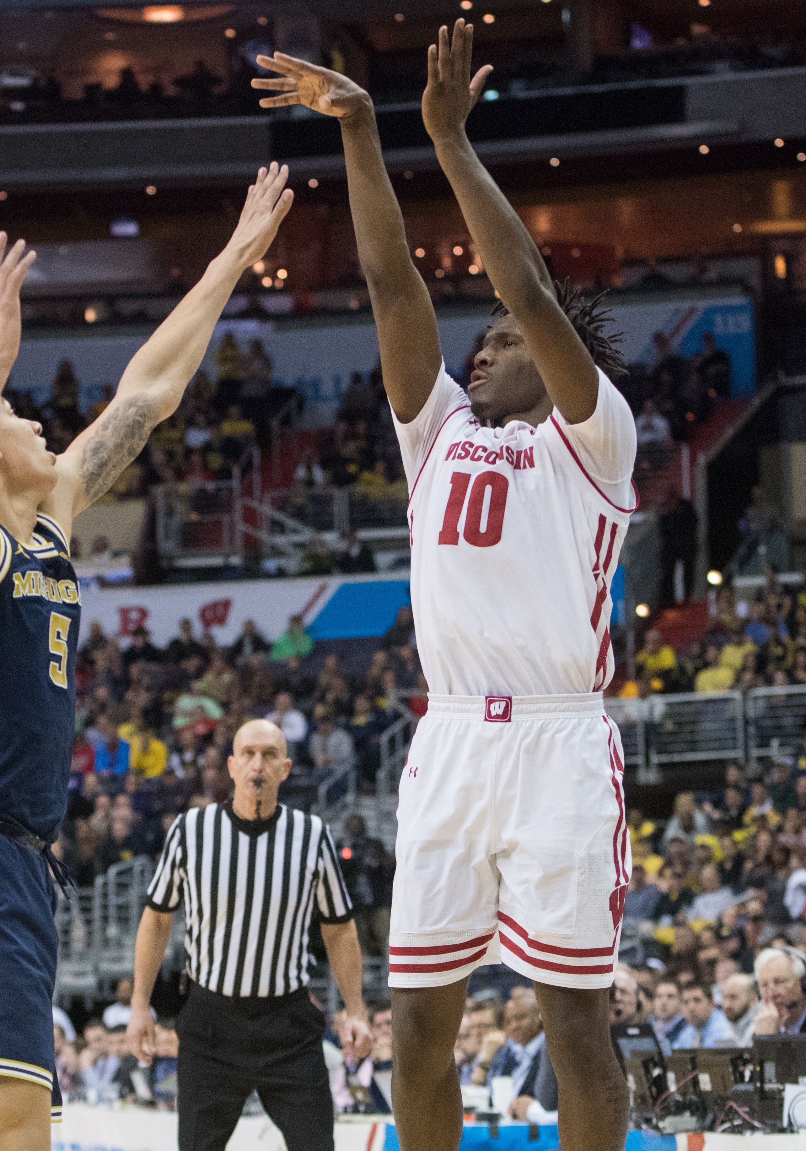 Nigel Hayes of Wisconsin